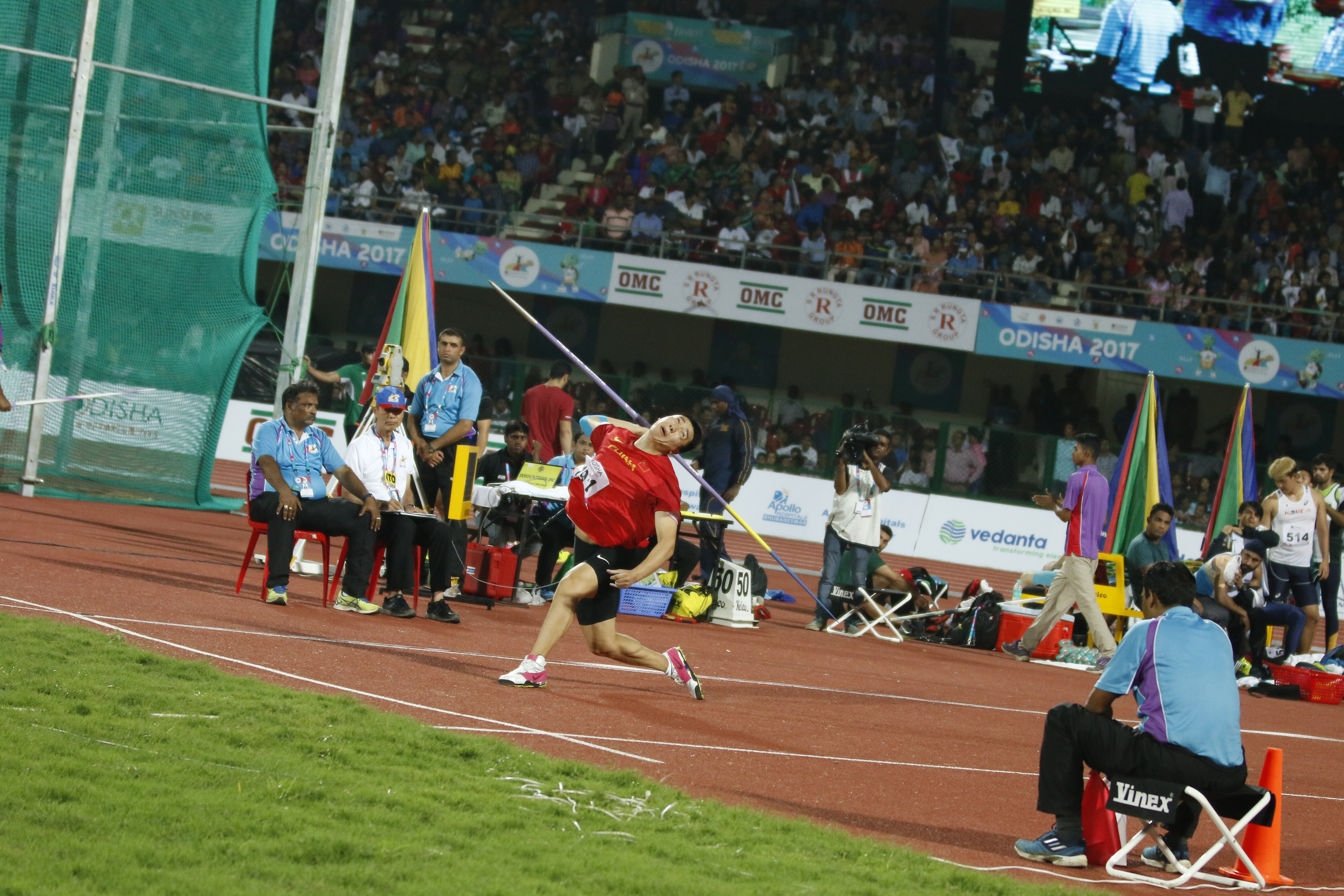 Athletes during 22nd Asian Athletics Championships in Bhubaneswar.